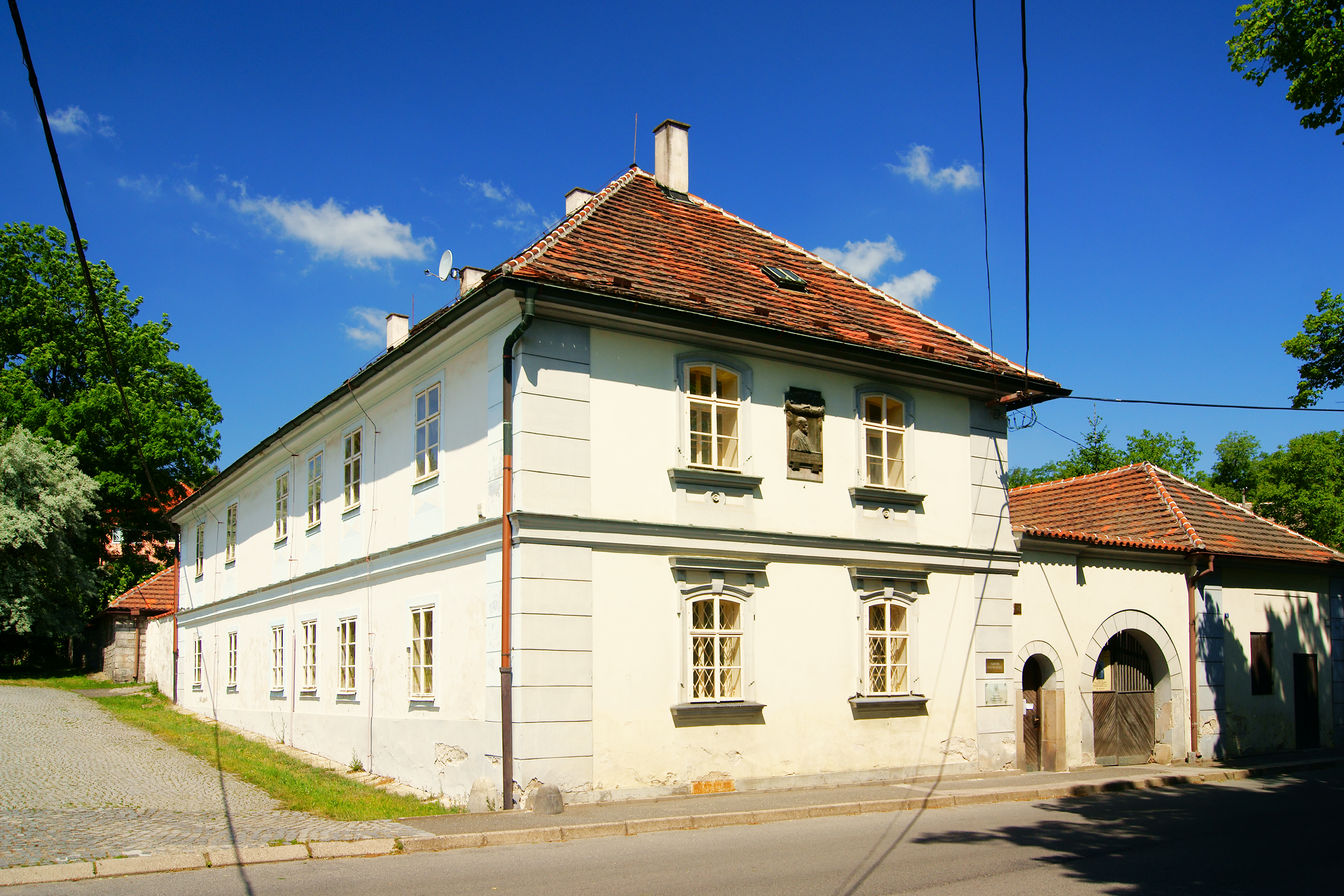 Nelahozeves (Czech republic), birth house of Antonín Dvořák.